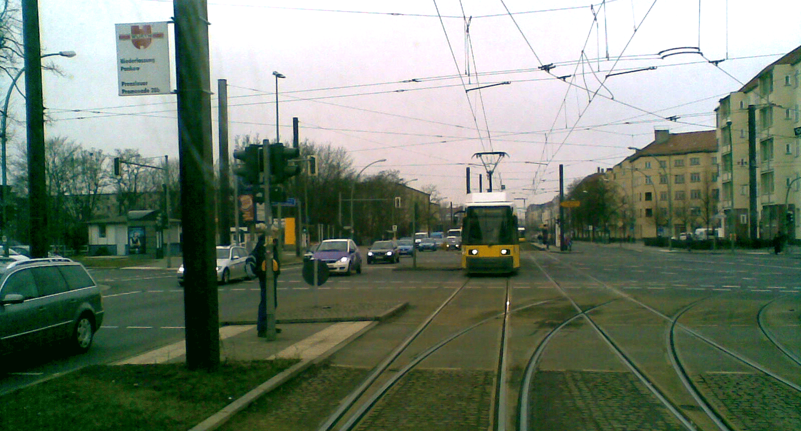 The Crossroads in Berlin-Pankow. Begin of Ostseestraße at intersection point with Prenzlauer Allee. View to the center of Berlin.